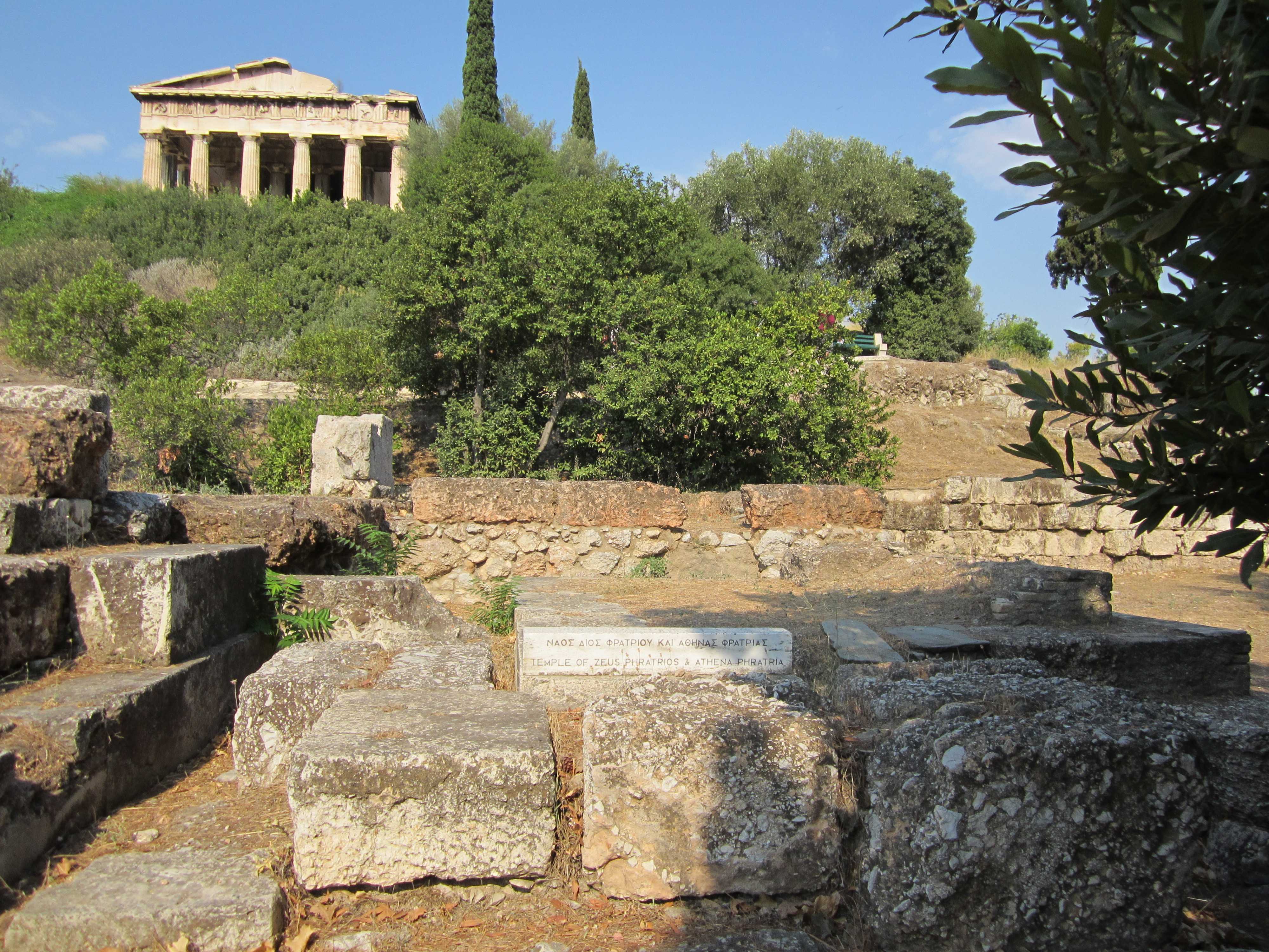 Temple of Zeus Phratrios (Zeus Fratrios) and Athena Phratria (Athene Fratria). Ancient Agora of Athens, Greece.